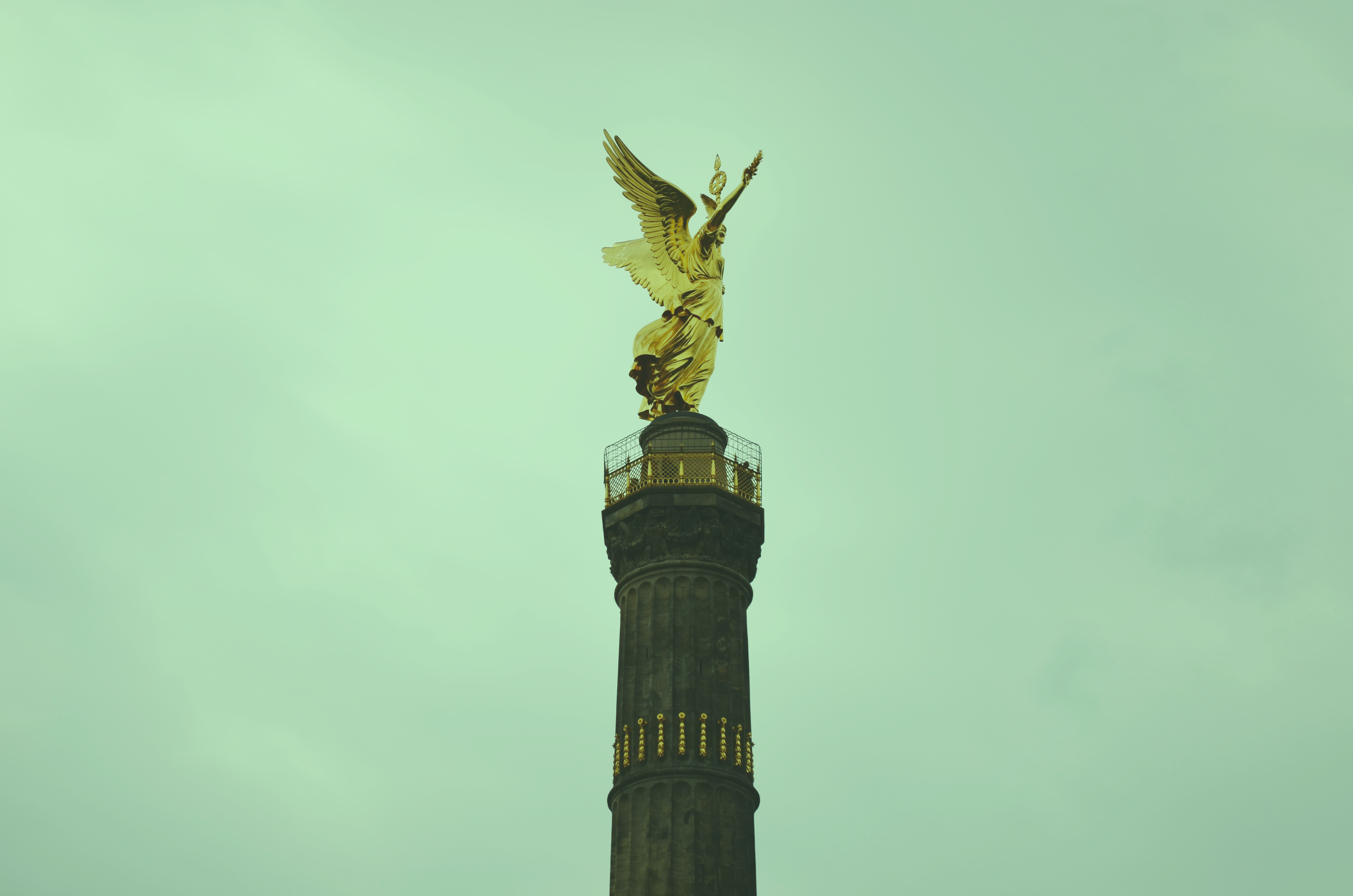 Colonna della vittoria, Berlino